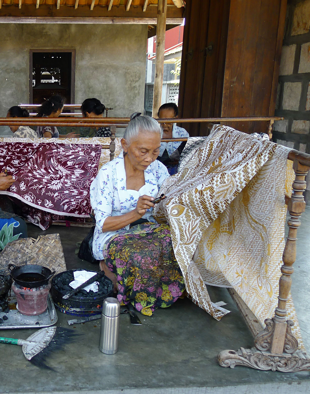 Three women making batik in Ketelan, Central Java